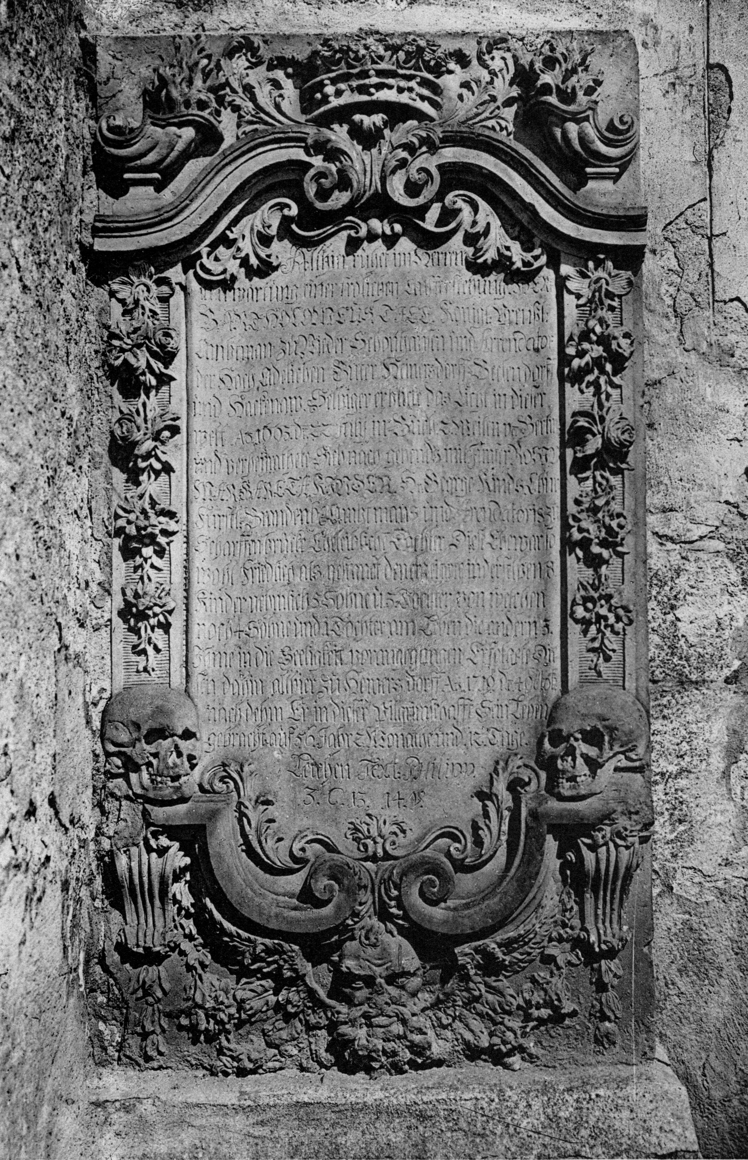 Tombstone for bailiff B. Tile in Heinersdorf, Steinhöfel, Brandenburg, Germany